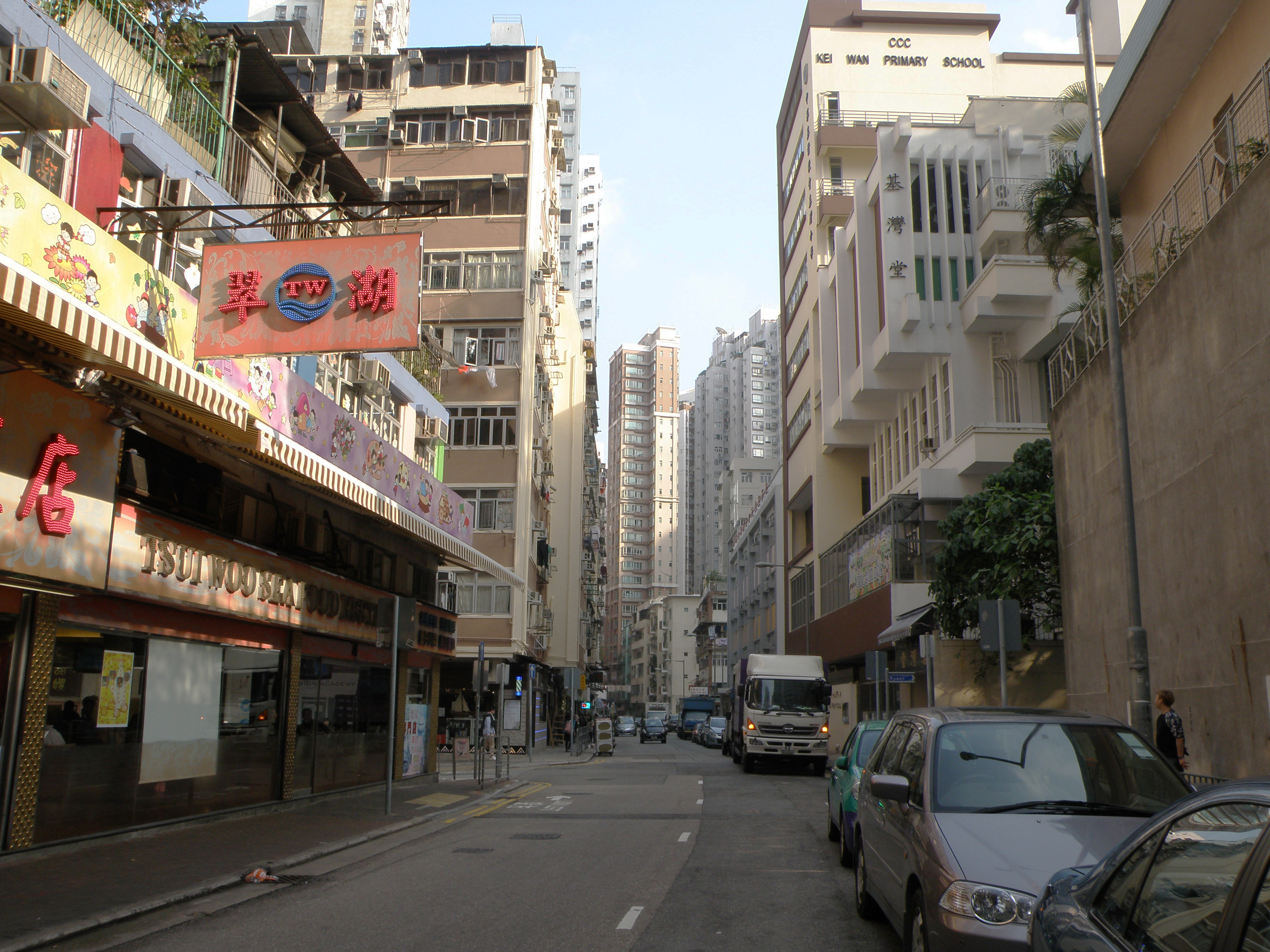 Sai Wan Ho Street in Sai Wan Ho, Hong Kong.